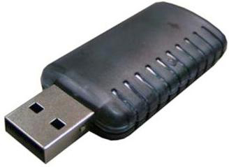 karta sieciowa WLAN na usb.